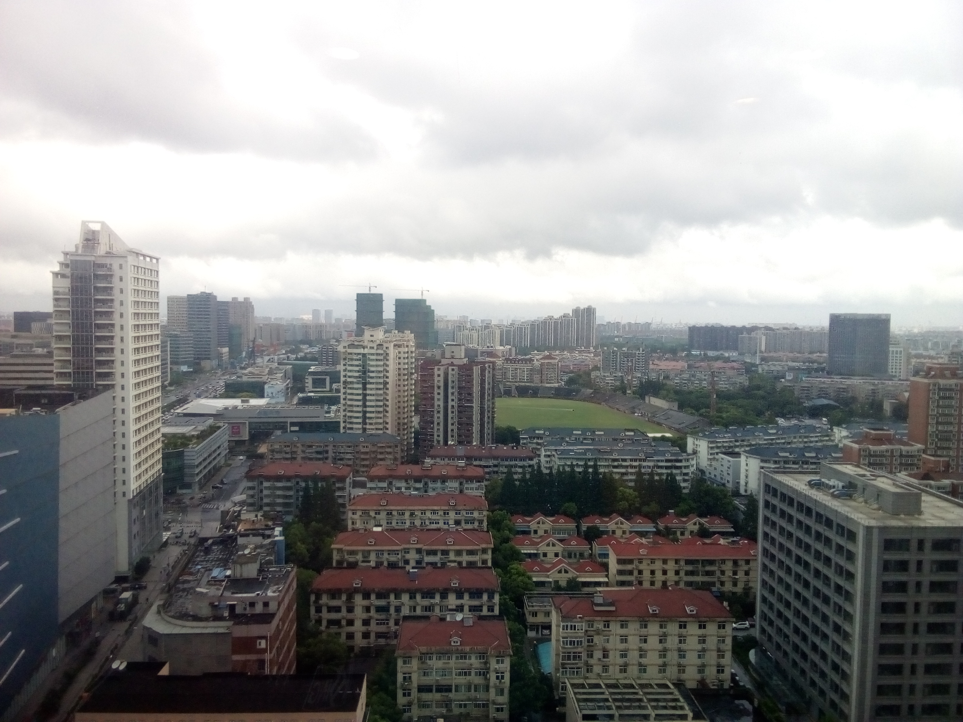 3 August 2018 Wujiaochang - Watching Jiangwan Stadium when Typhoon Jongdari landing in Shanghai